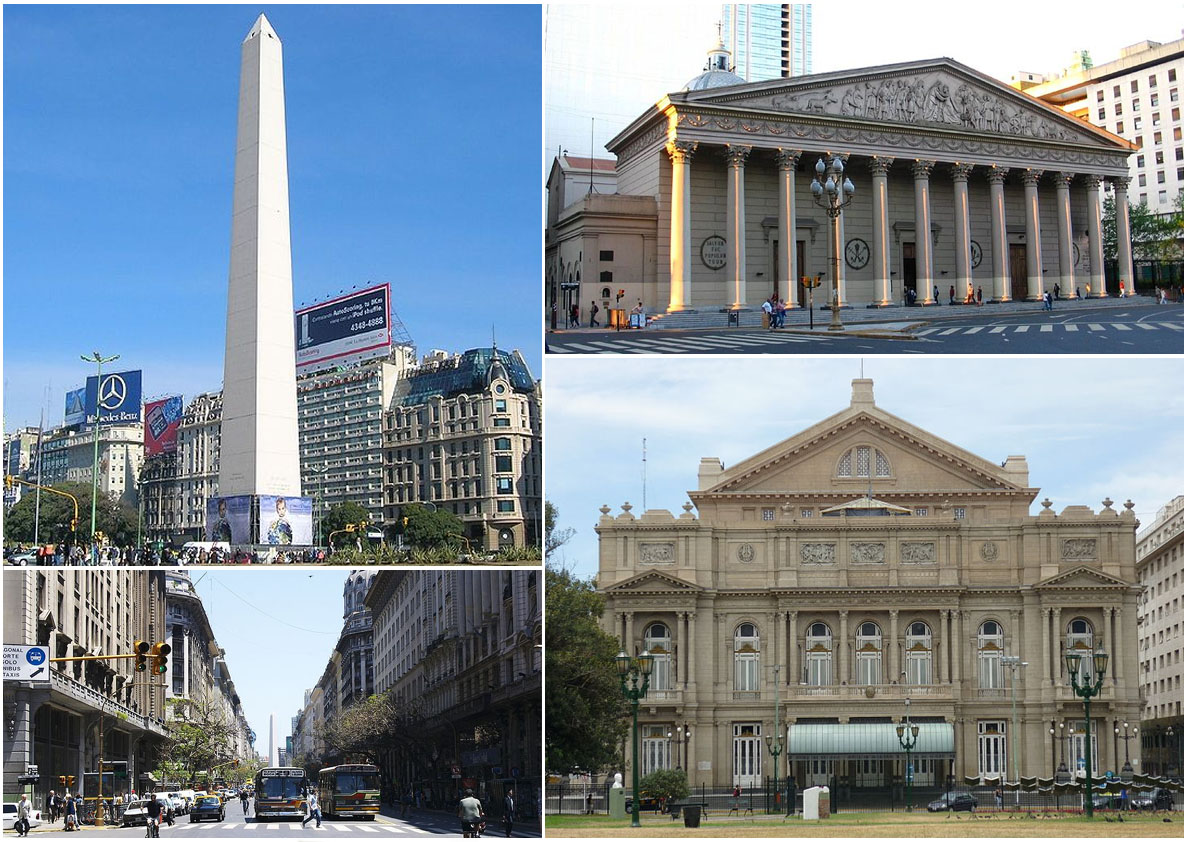 Photo montage of the Buenos Aires district of San Nicolás